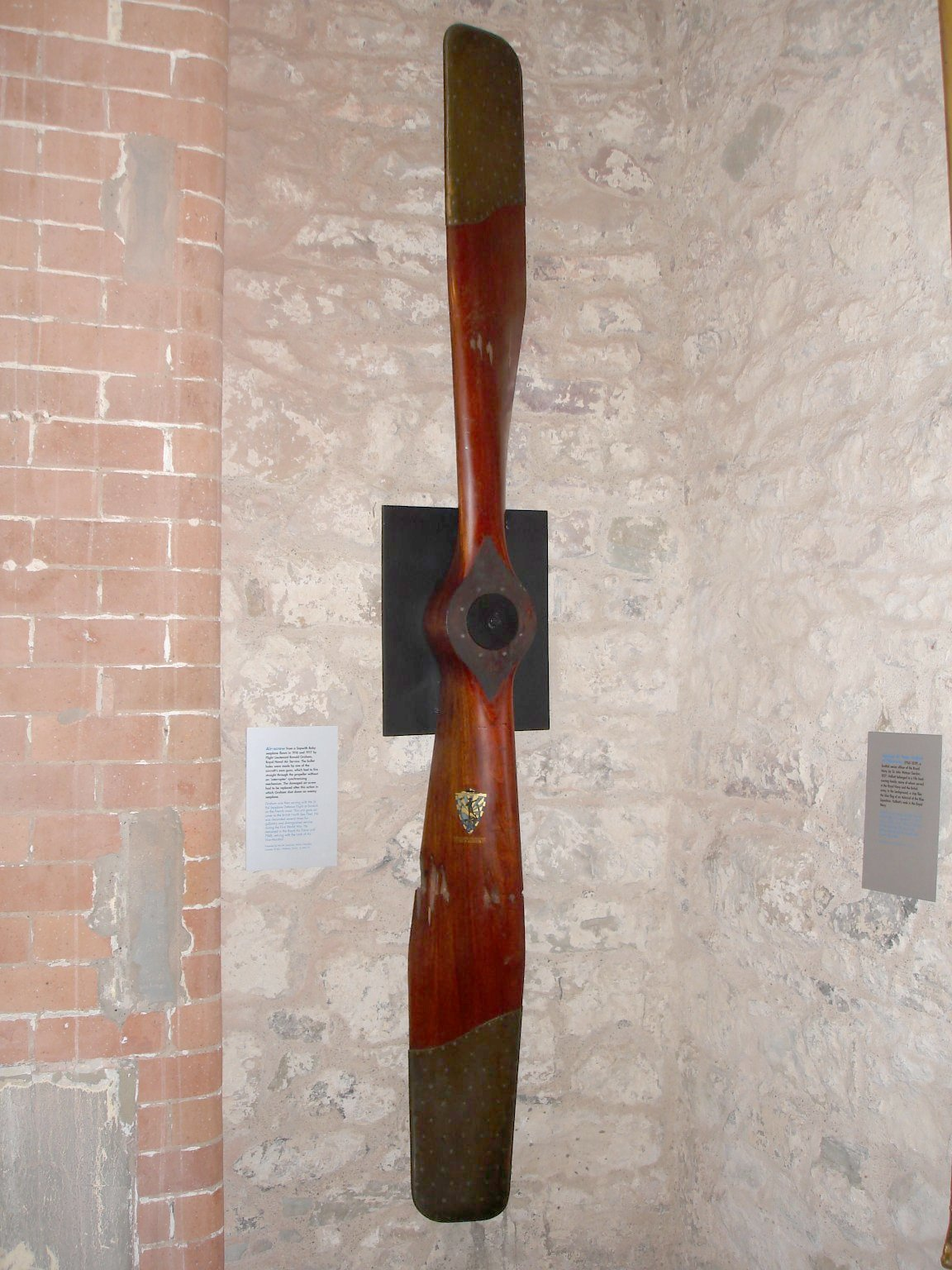 Airscrew from Sopwith Baby aircraft with visible damage from machine gun fired without interruptor gear.